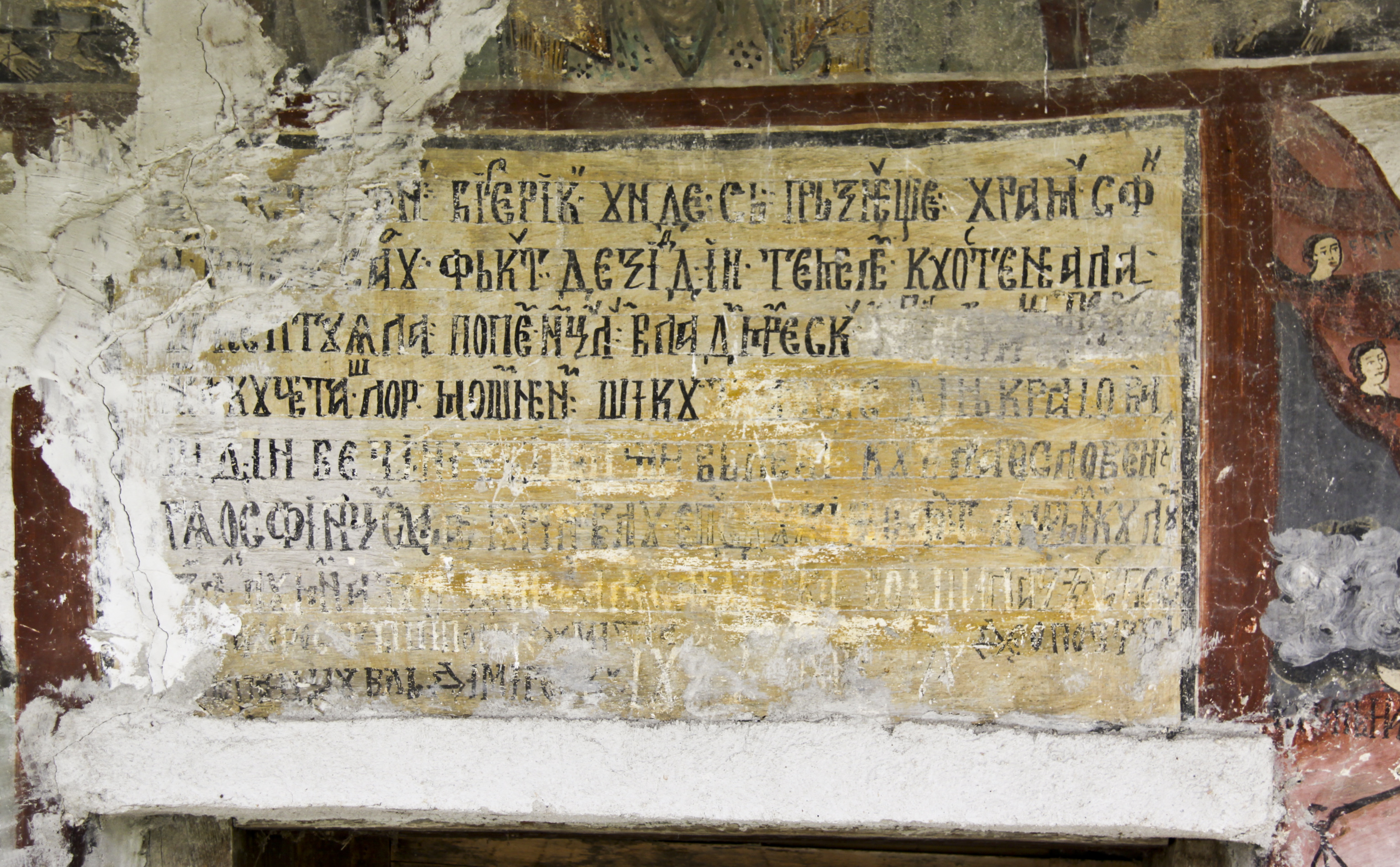 Mierea, Vâlcea county, Romania: the church.